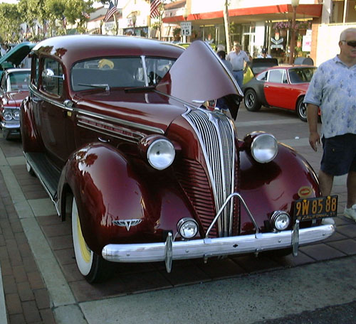 1937 Hudson Custom Eight.